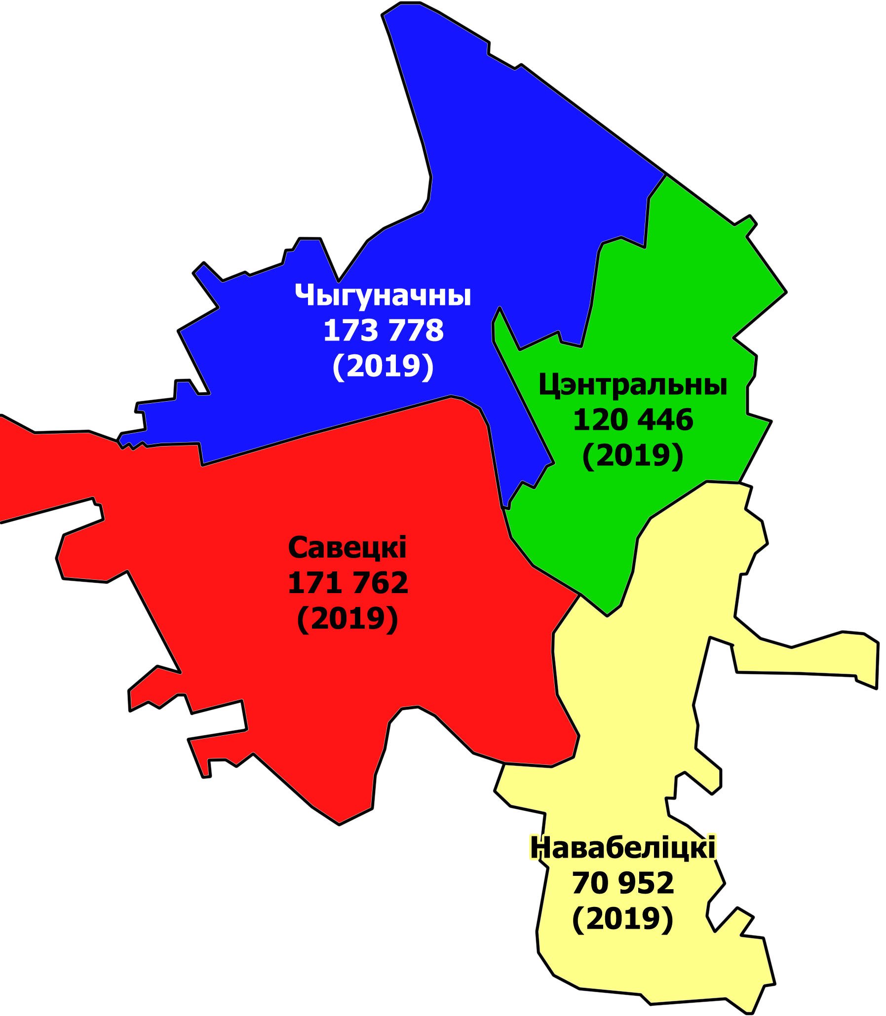 Districts of Homieĺ (Belarus)